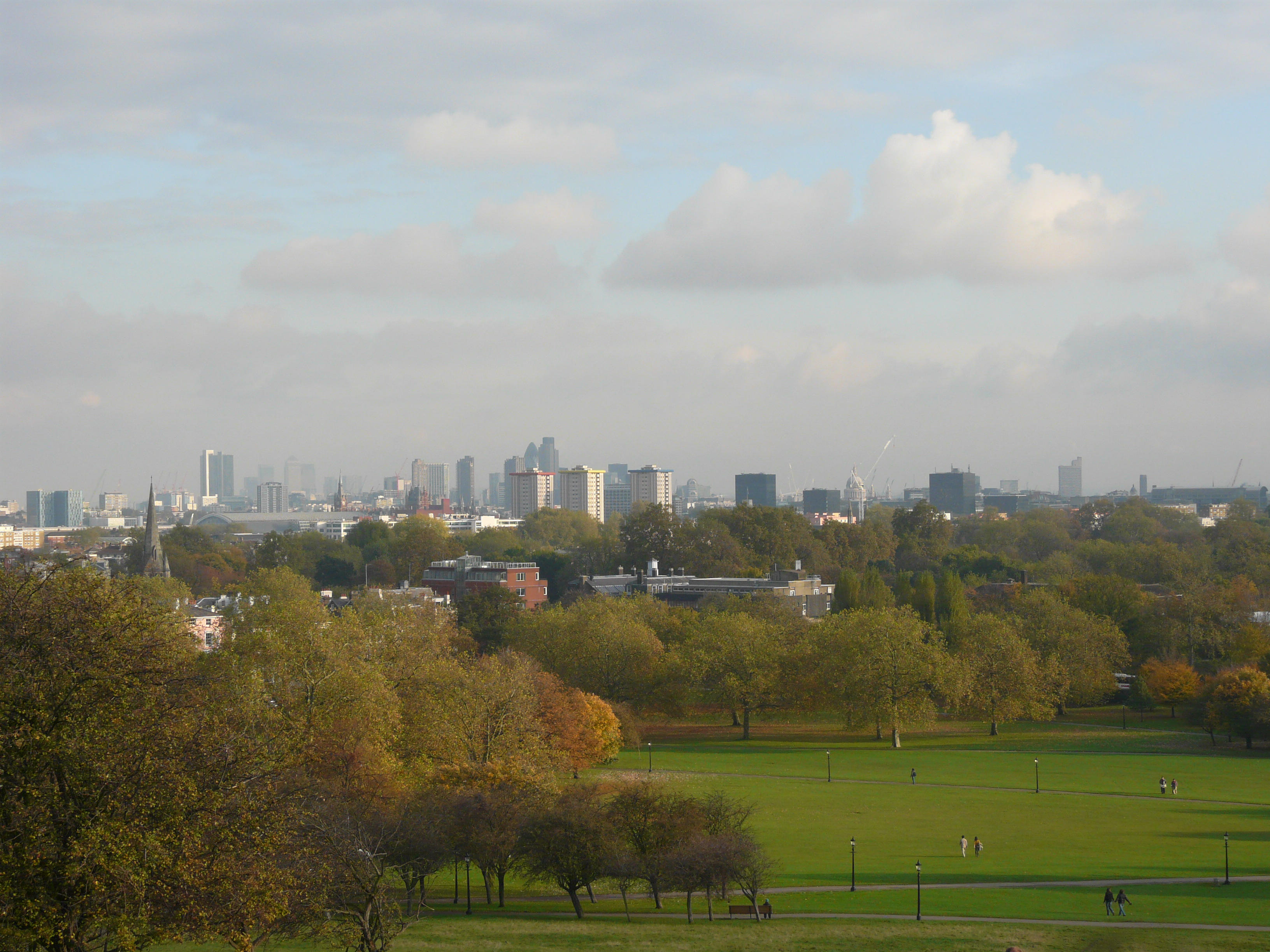 The City From Primrose Hill